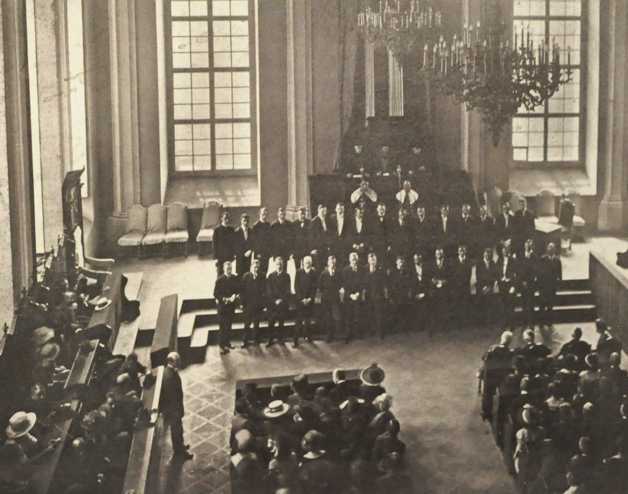 Graduation ceremony of students of the German University in Prague the Great Hall of Carolinum in 1920.